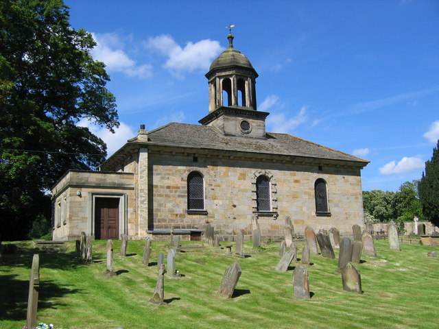 All Saints' parish church, Brandsby, North Yorkshire, seen from the south